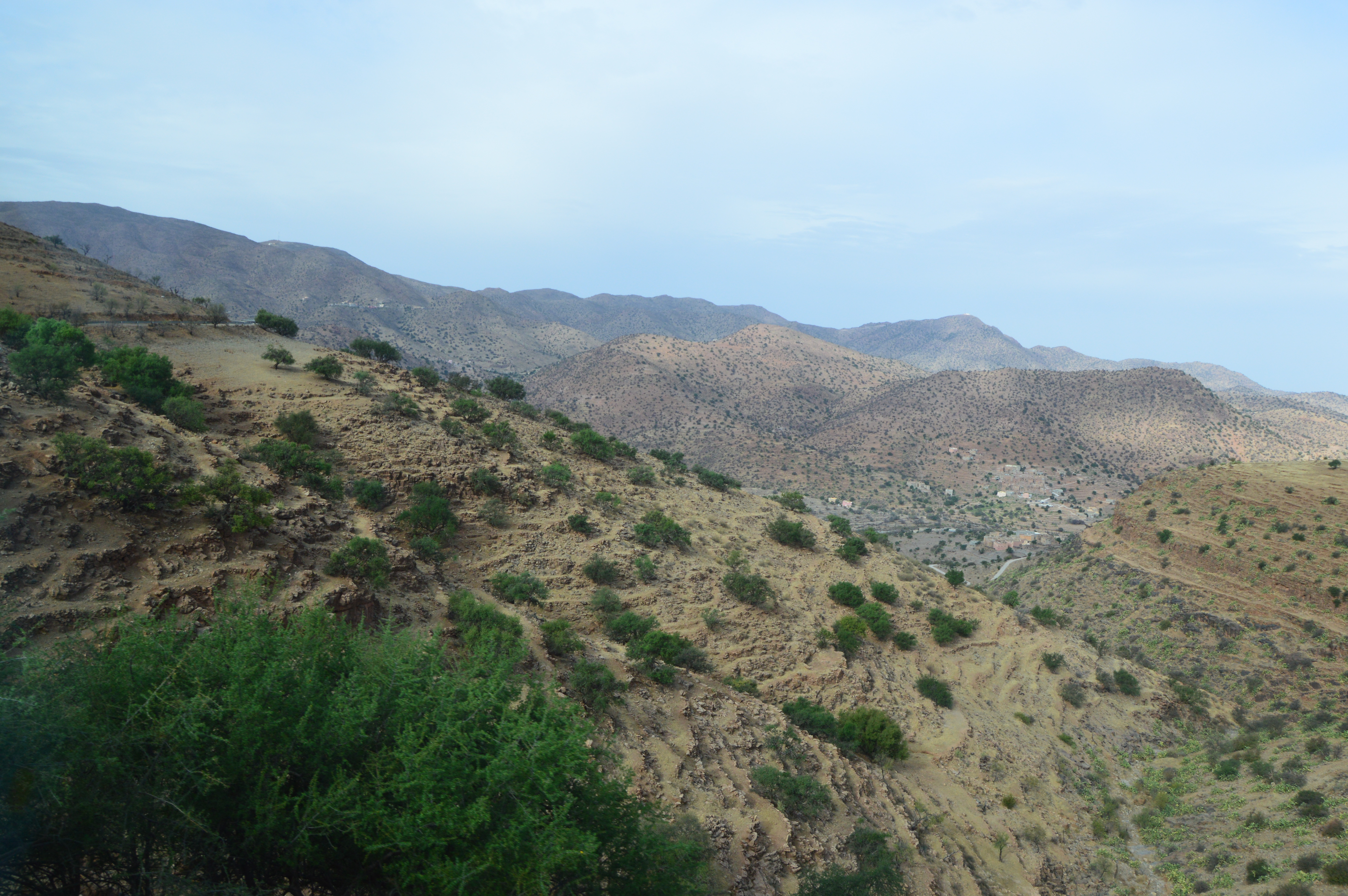 Argan trees in Anti-Atlas